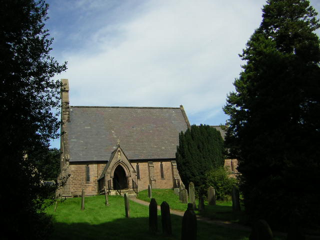 Markington Church. Church of Saint Michael the Archangel in the Parishes of Markington, South Stainley and Bishop Thornton